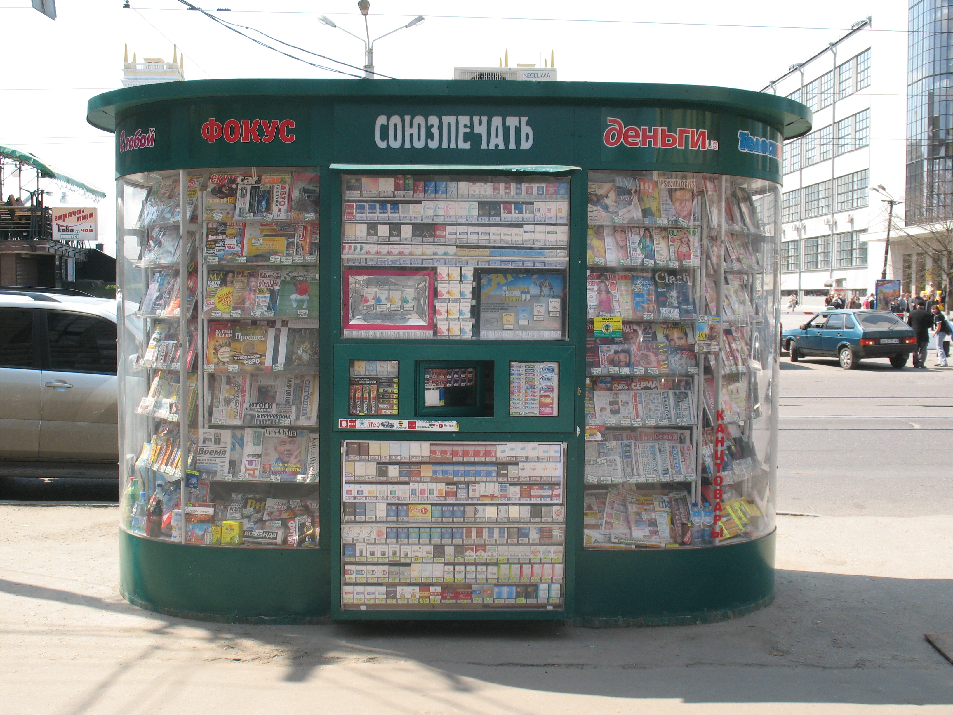 Kharkov (Ukraine). A Soyuzpechat kiosk.